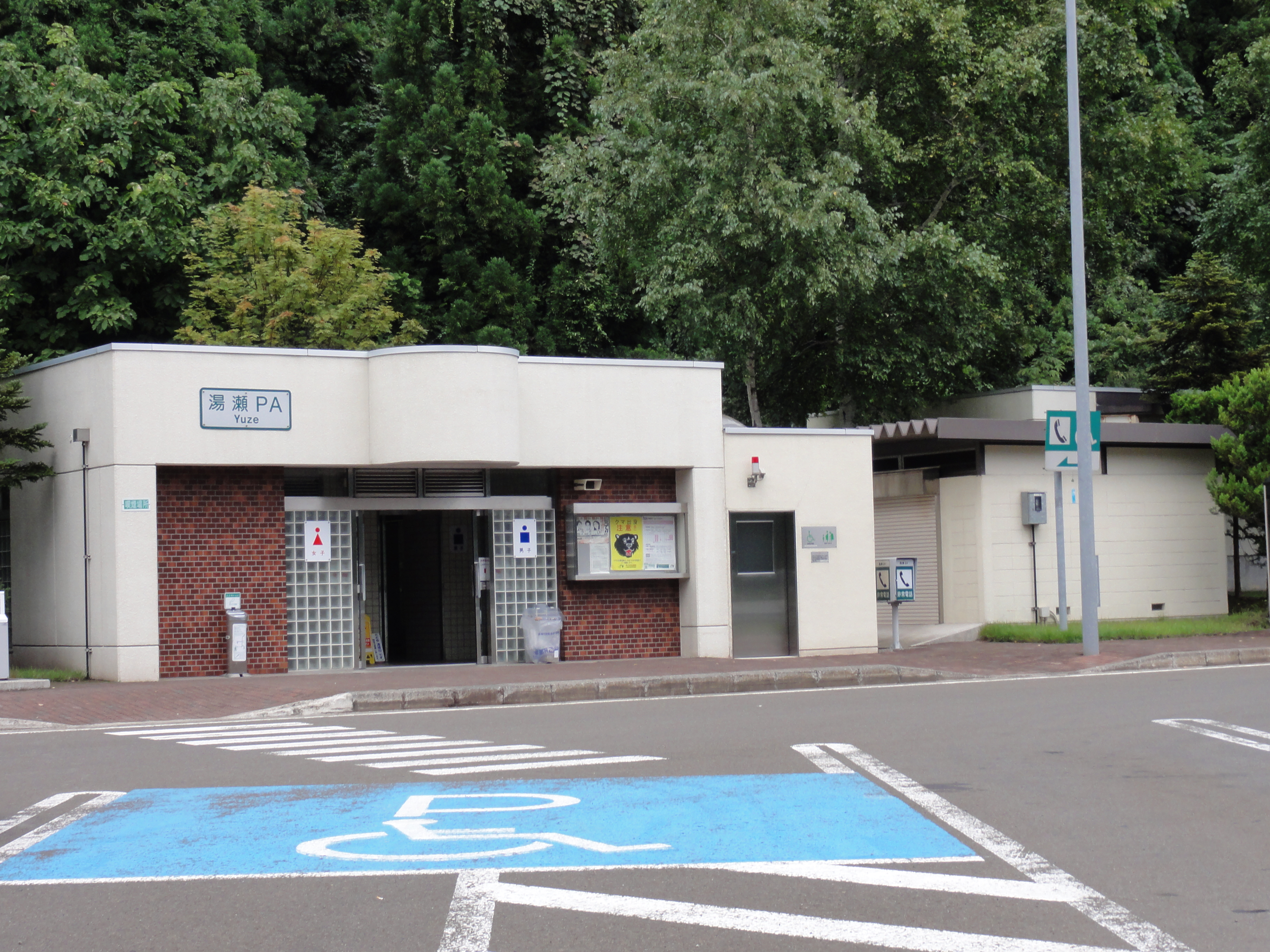 Yuze ParkingArea,Akita Pref., Japan